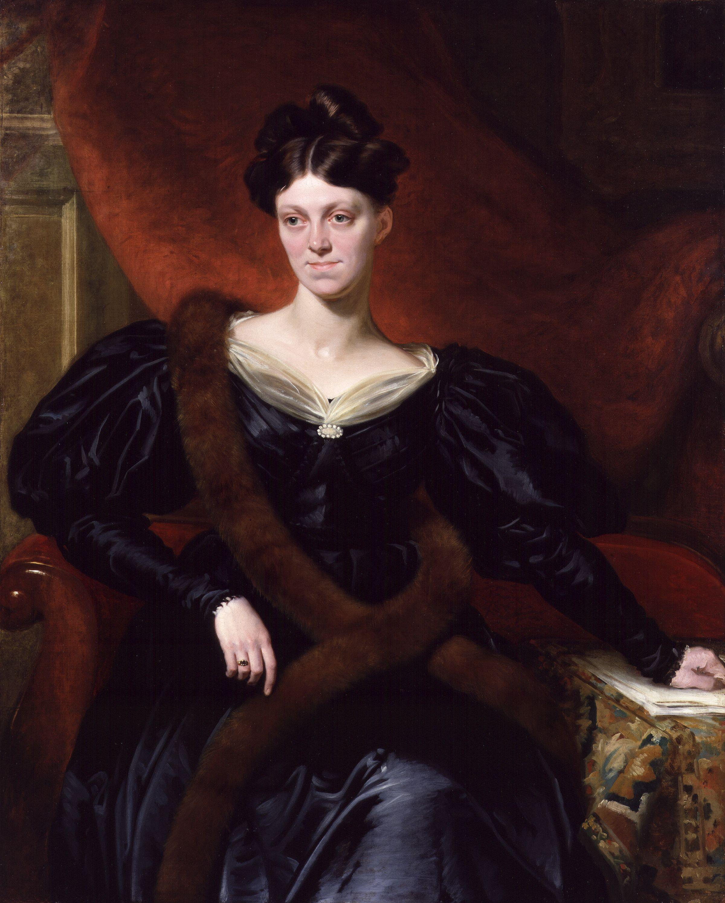 Harriet Martineau, by Richard Evans (died 1871). All images in this batch have been confirmed as author died before 1939 according to the official death date listed by the NPG.